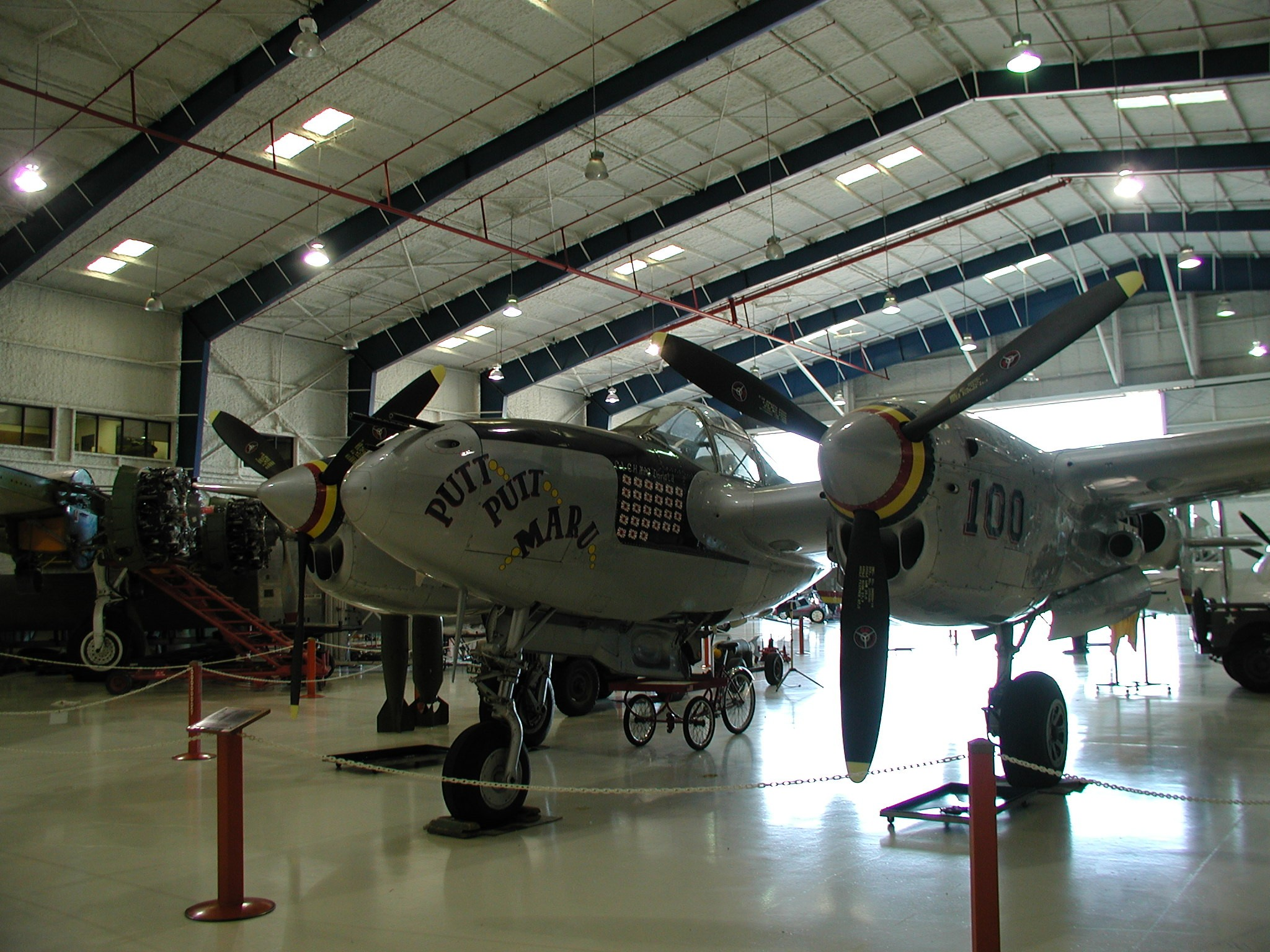 Douglas A-20 Havoc / Boston (in reality, a p-38 lightning, previously in Galveston Texas)